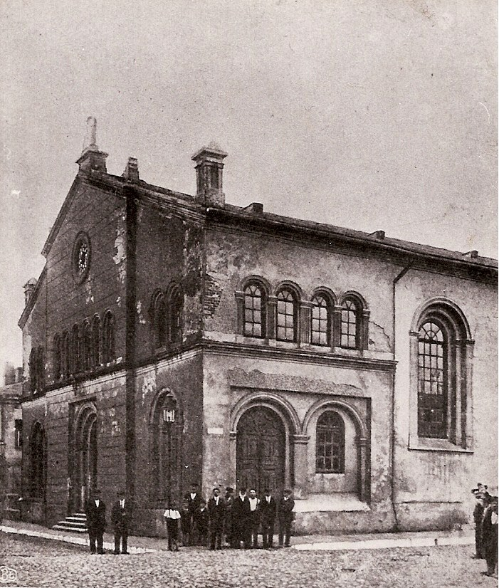 Synagoge in Tomaszow Mazowiecki